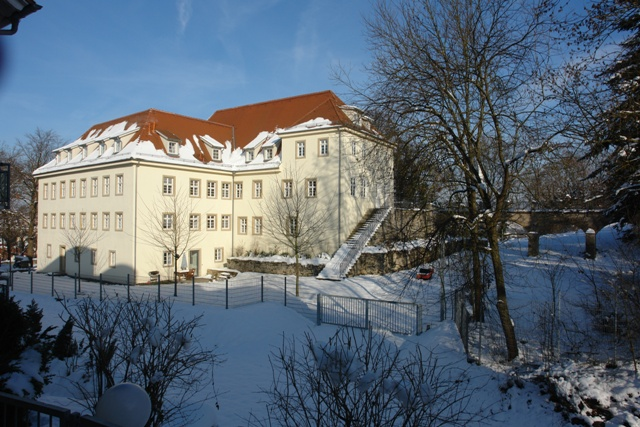 View of Harteneck Castle from the South